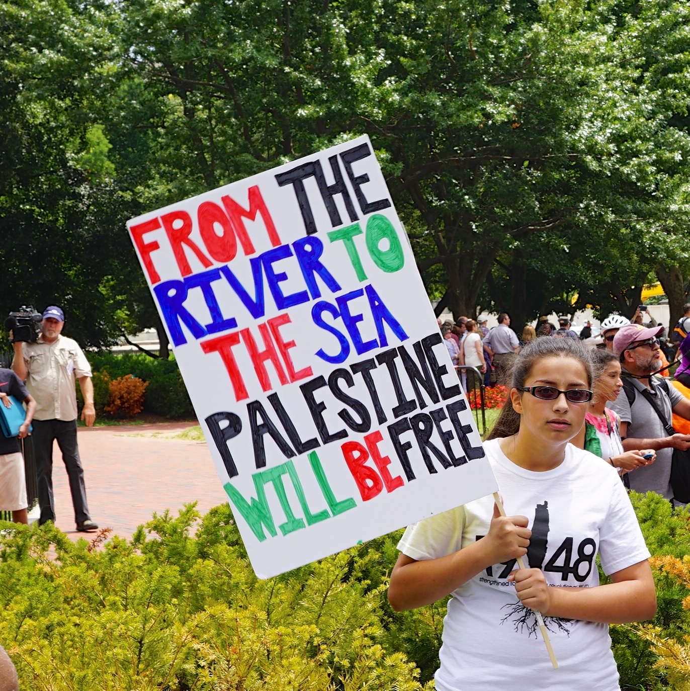 Israel Photos 2014.08.02 Anti-Israel Protest